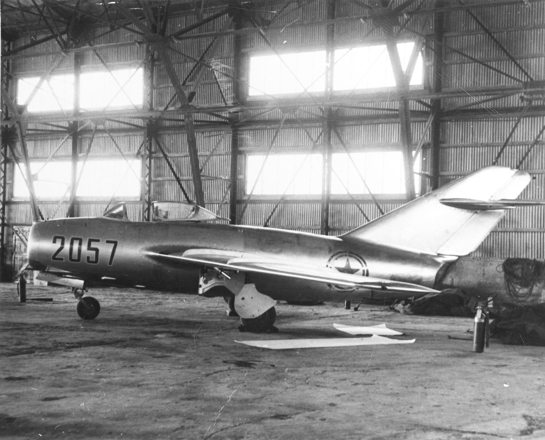 The Mikoyan Gurevich MiG-15bis of North Korean Senior Lt. No Kum-Sok in a hangar at Kimpo air base, South Korea, on 21 September 1953. Kom-Sok, who had long before decided to escape to South Korea, suddenly landed downwind at Kimpo Air Base near Seoul, South Korea, greatly surprising the personnel there. Within a day the plane was flown to Okinawa, today it is on display at the Museum of the United States Air Force in Dayton, Ohio (USA).